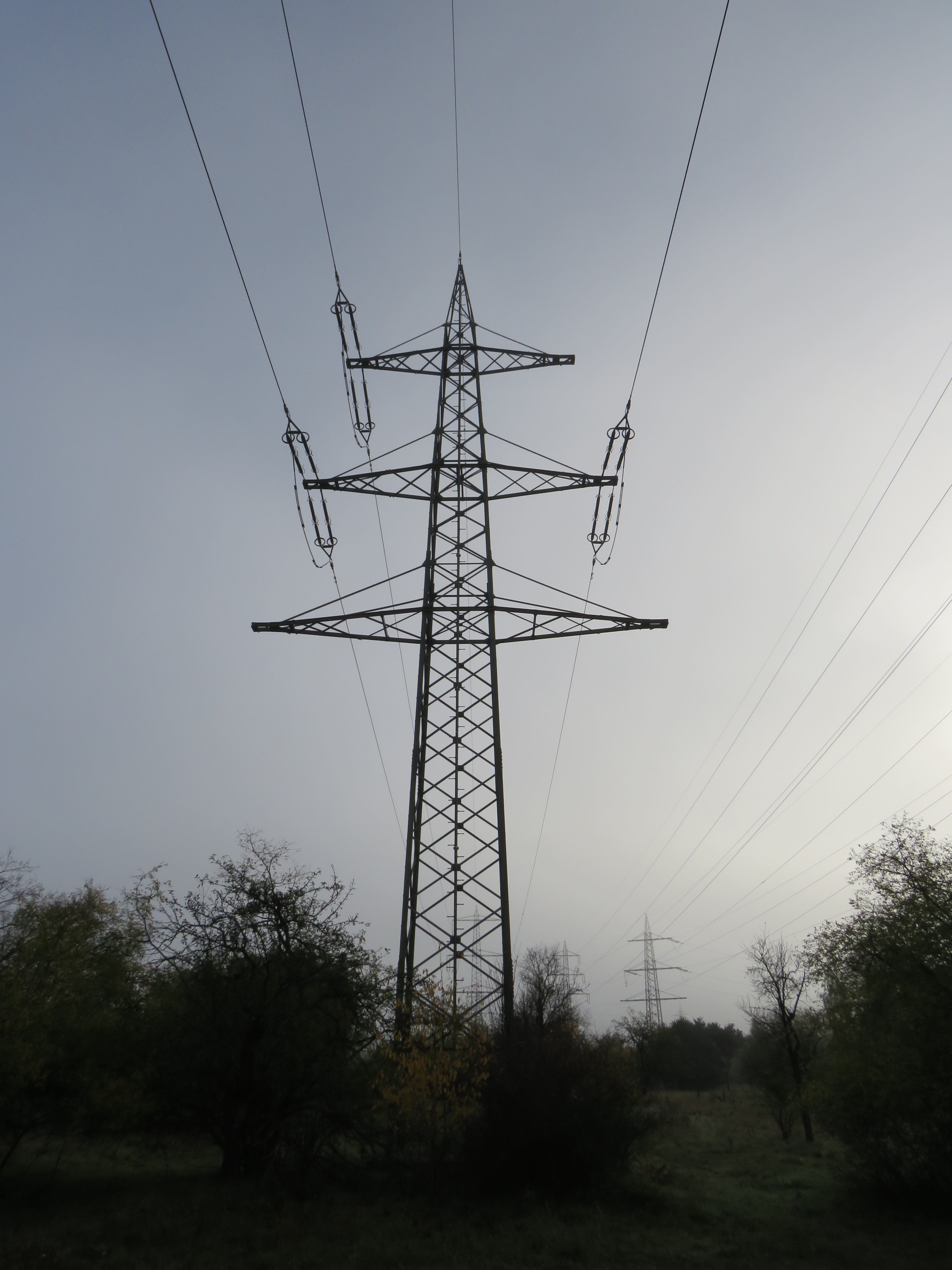 Power lines at Mörfelden-Walldorf near Frankfurt am Main